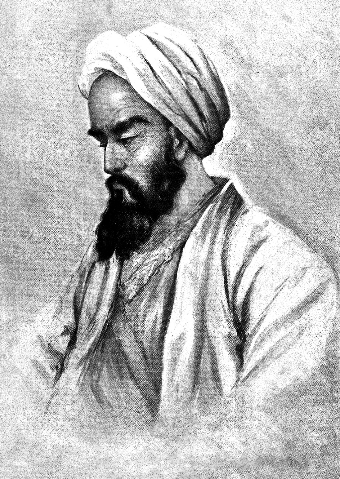 Portrait of Rhazes (al-Razi) (AD 865 - 925), physician and alchemist who lived in Baghdad Wellcome Images Keywords: Rhazes